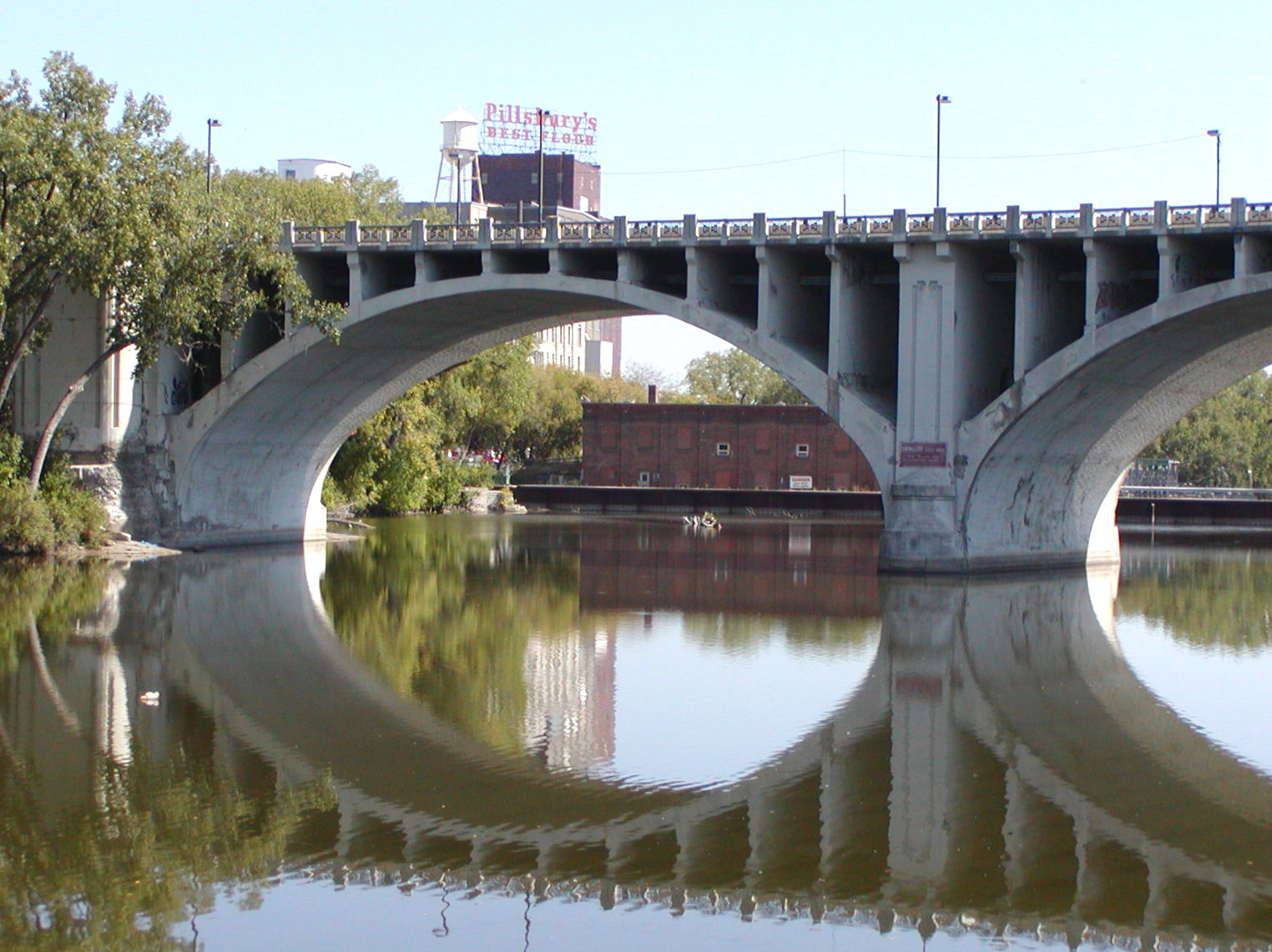 taken by William Wesen 09/13/06 Category:Images of Minneapolis, Minnesota